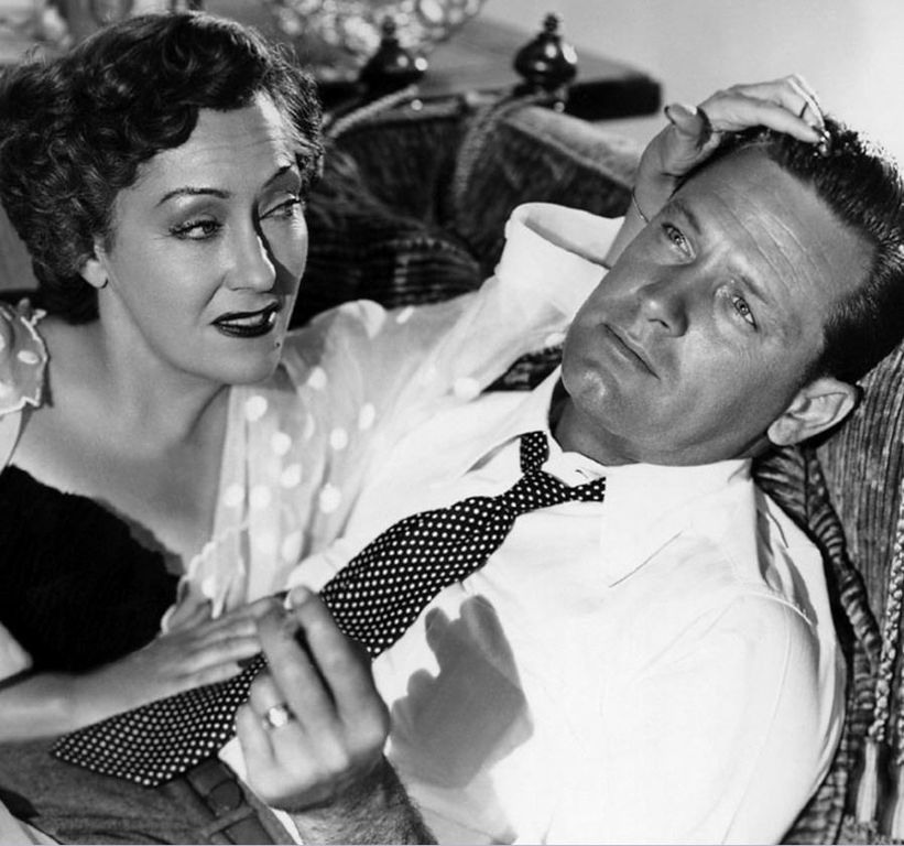 Studio publicity portrait for the 1950 film Sunset Boulevard — with Gloria Swanson and William Holden.